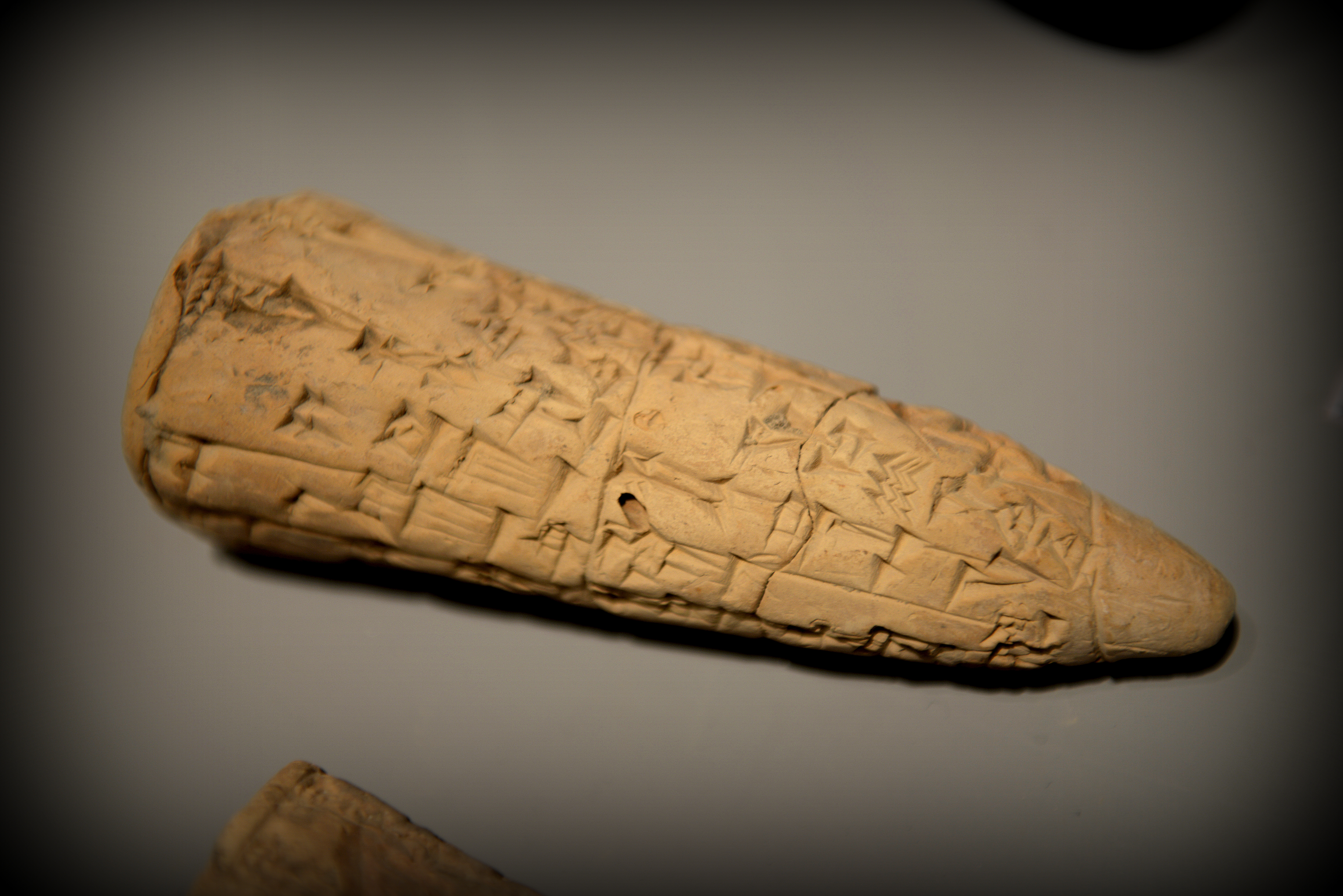 The cuneiform inscriptions on this foundation cone mention the building of the temple of the god Numushda in the city of Kiritab by Enlil-Bani, king of Isin. Old Babylonian period, 2003-1595 BCE. The Sulaymaniyah Museum, Iraq.